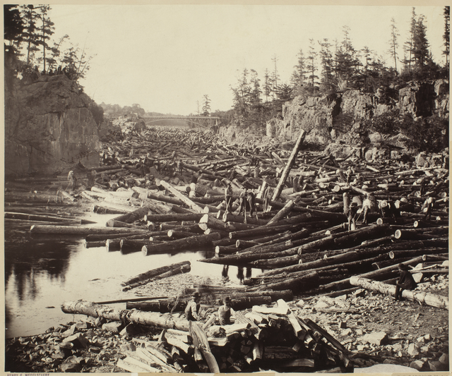 Scan from original on an Epson Expression 10000XL.